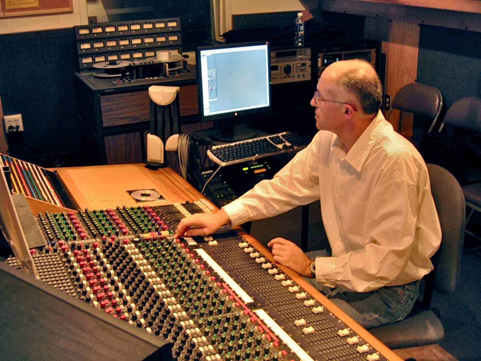 Mladen Milicevic at work